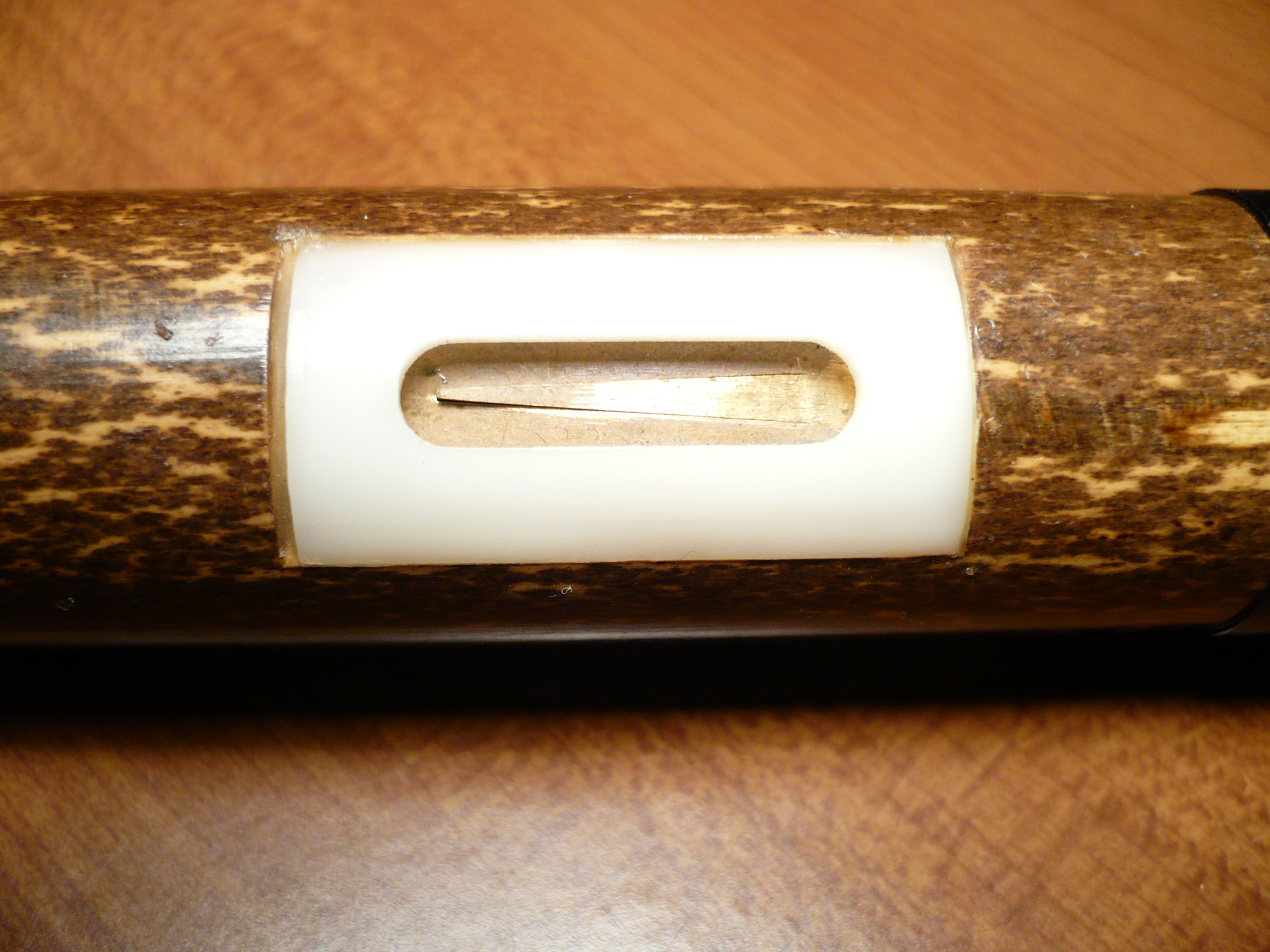 The mouthpiece (including free reed) of a bawu (free reed pipe) in the key of F. The bawu was probably made in China.